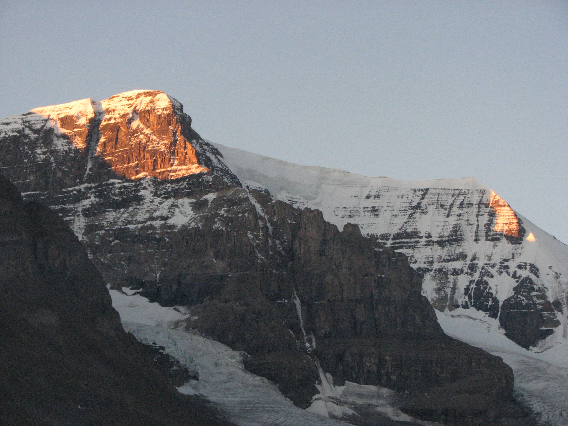 Mount Andromeda at dawn from the Athabasca Glacier. Alberta, Canada